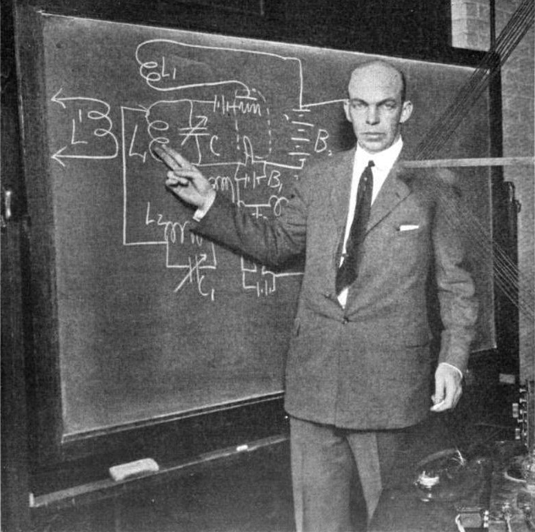 American electrical engineer and inventor Edwin H. Armstrong in 1922. Armstrong is one of the most prolific inventors in the history of radio. He invented the regenerative circuit (vacuum tube feedback oscillator), the superregenerative receiver, the superheterodyne receiver, and frequency modulation (FM) radio transmission. This was probably taken at the June 28, 1922 meeting of the Radio Club of America in room 306, Havemeyer Hall, Columbia University, New York, at which Armstrong demonstrated the superregenerative receiver. his prototype is partially visible on the right.